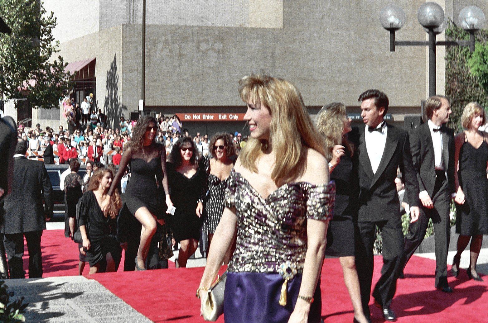 1990 Emmy Awards NOTE: Permission granted to copy, publish, broadcast or post any of my photos, but please credit "photo by Alan Light" if you can. Thanks. Scanned from the original 35MM film negative.